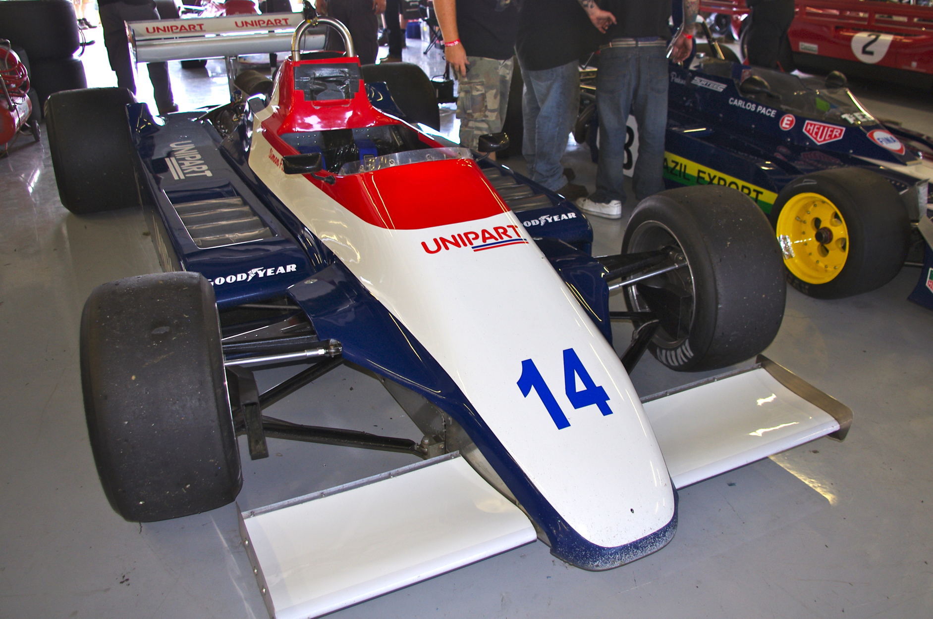 Silverstone Classic, 2012